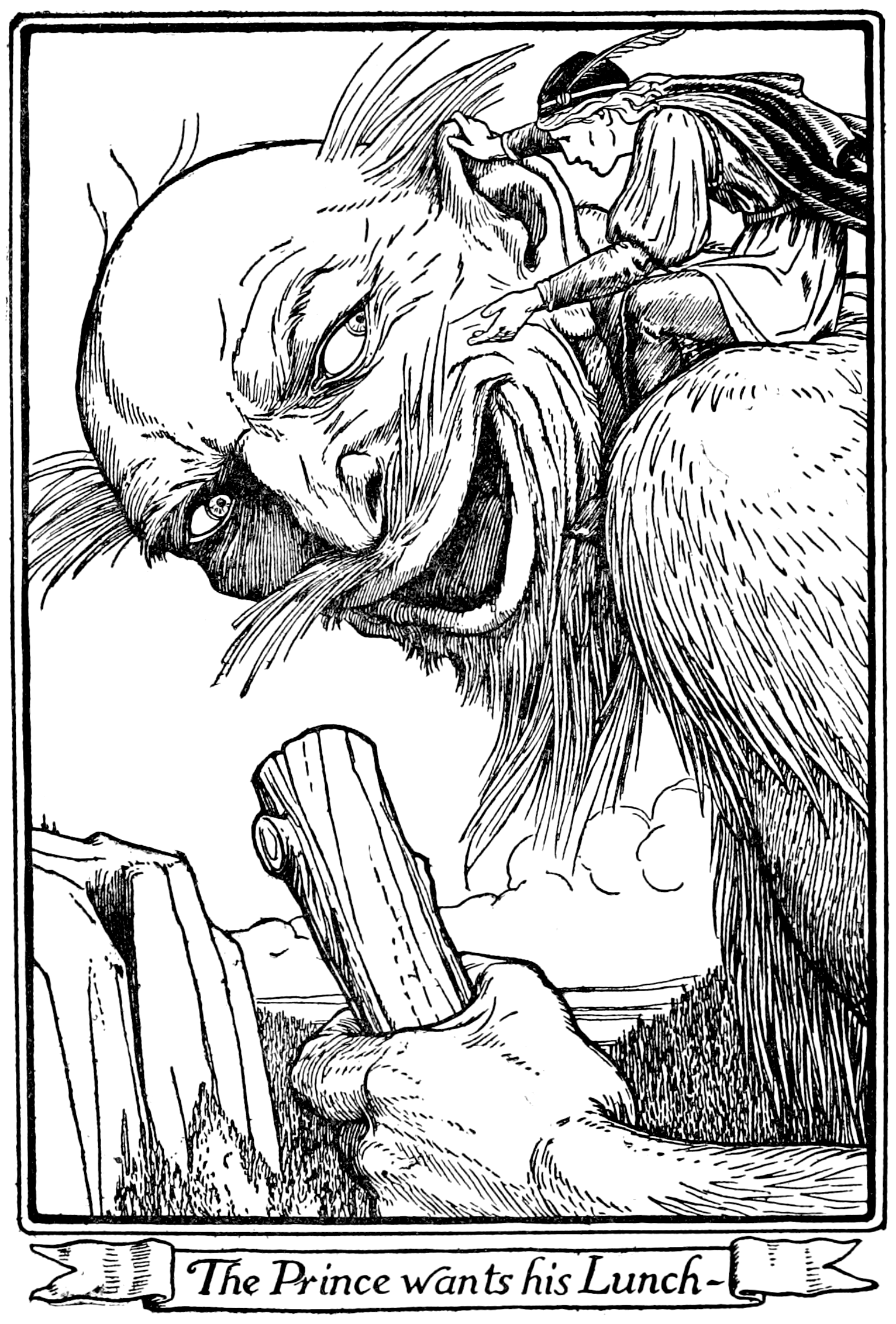 Illustration from a book of fairy tales from Europe, translated into english